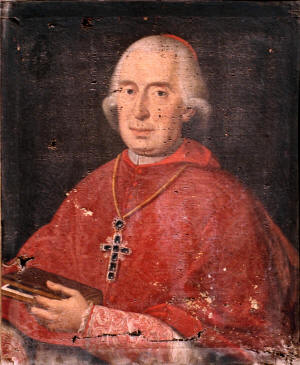 Giuseppe Garampi, cardinal of the Roman Catholic Church